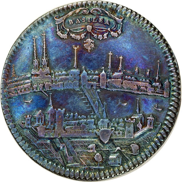 Basel city view taler obverse